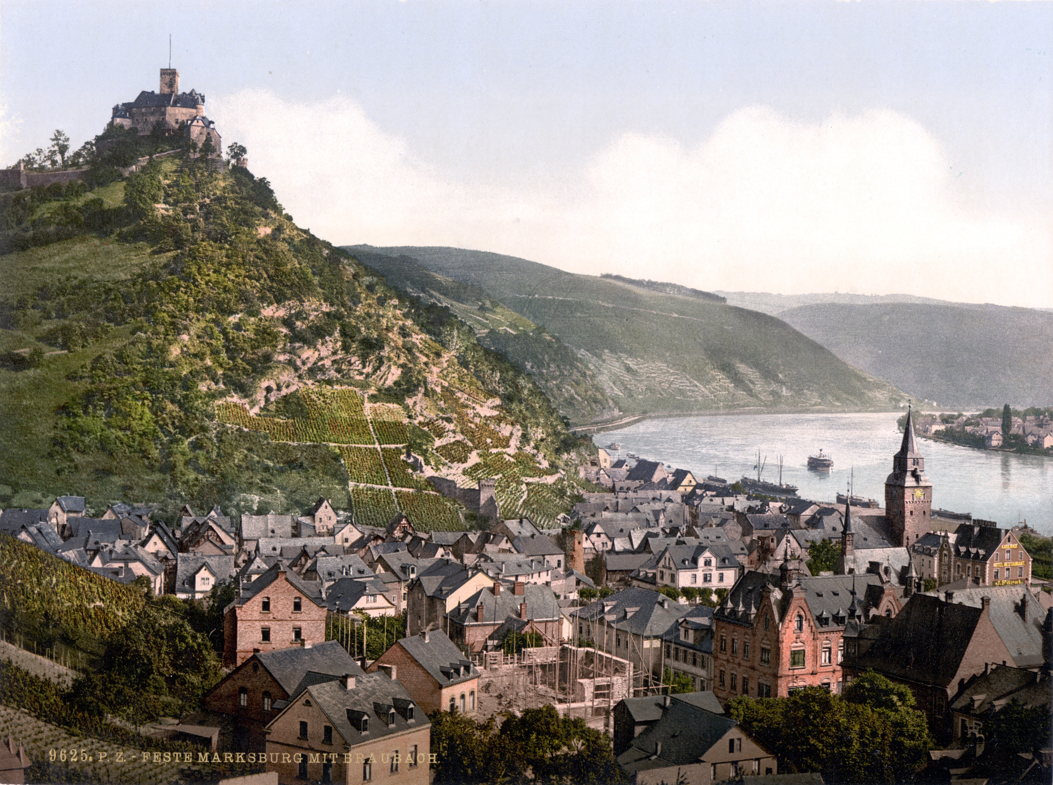 The Marksburg - view from north